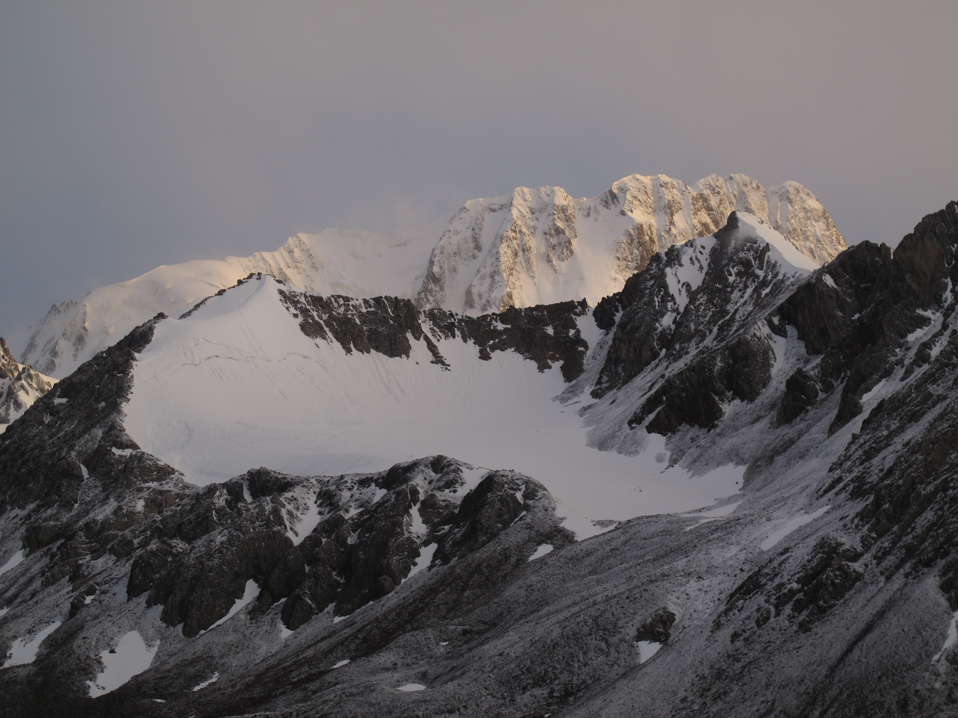 Djigit peak (5020, 5062,6 or 5170 m (according to source) peak in Terskey Alatoo, Tien-Shan) in the background